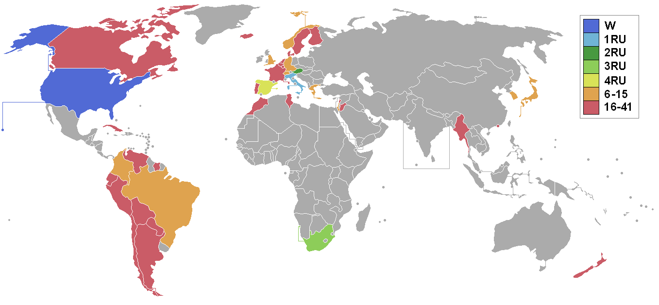 Miss Universe 1960 Map